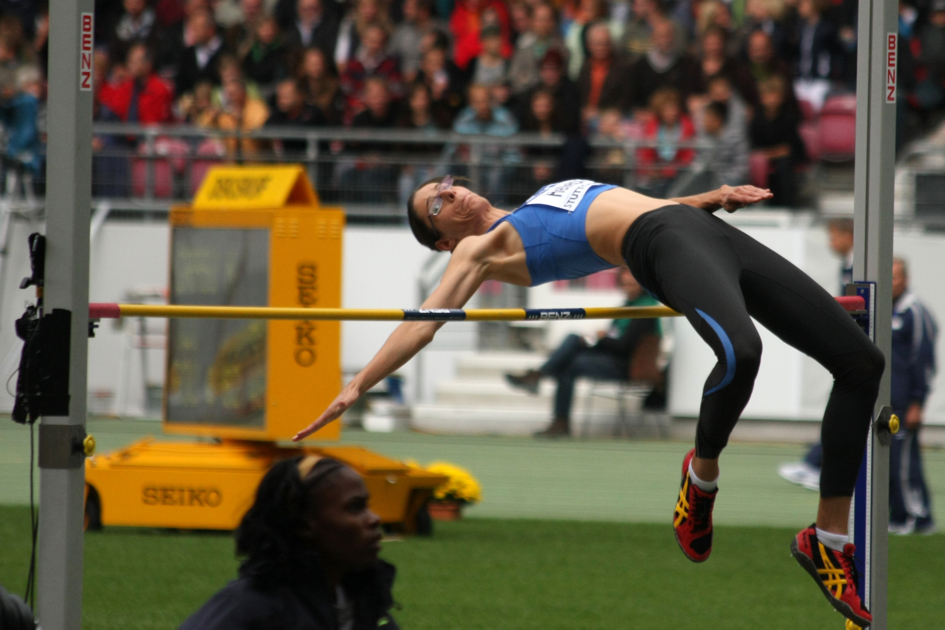 Tia Hellebaut Olympic Champion from Beijing